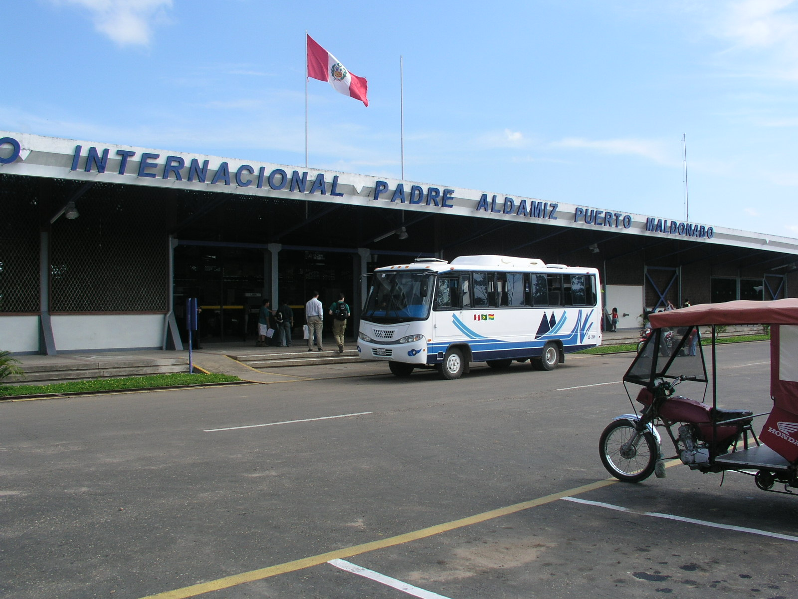 Puerto Maldonado. Air port. The picture was taken the 24th of July 2004 by Håkan Svensson (Xauxa).